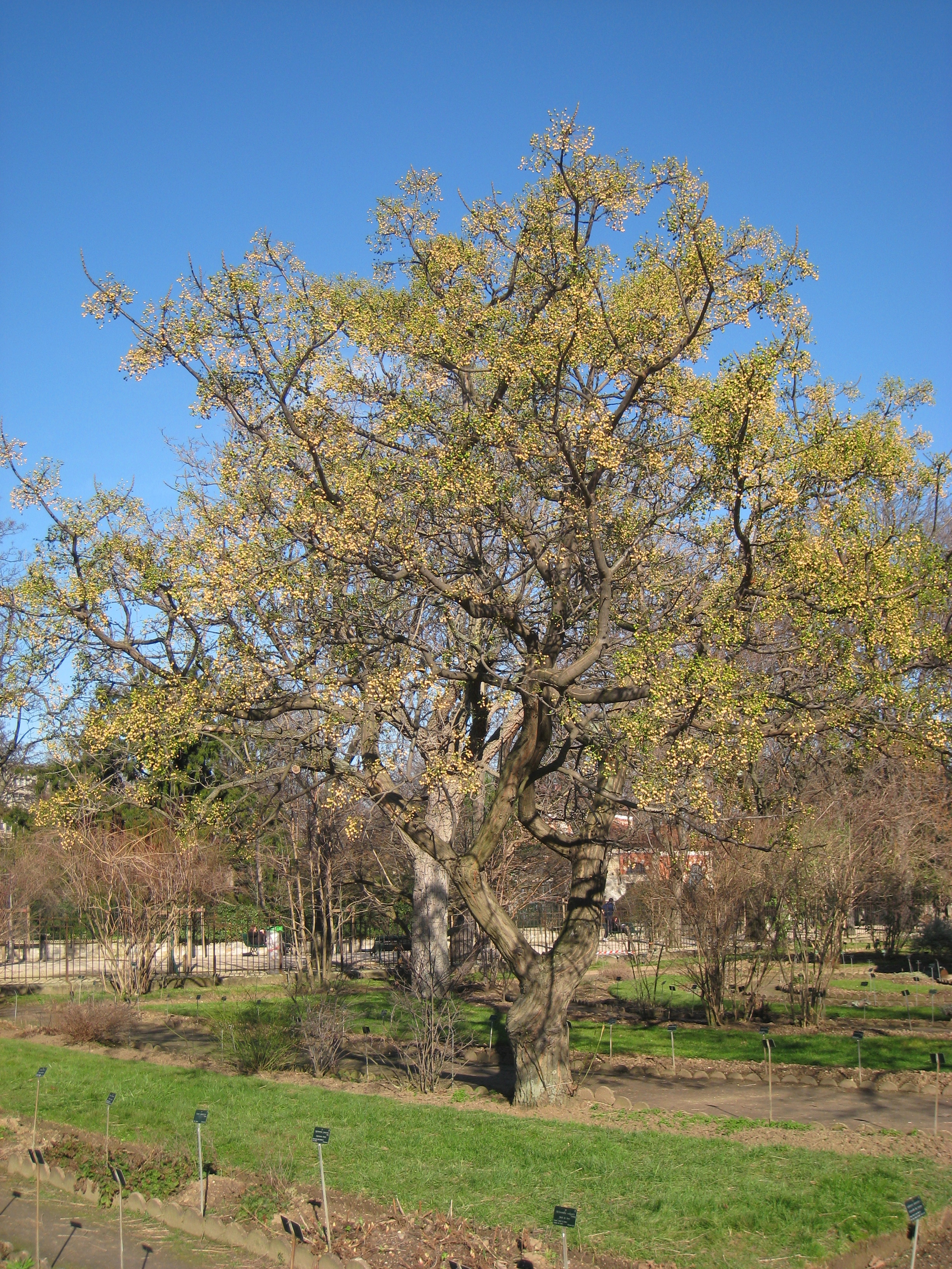 Melia azederach in the Jardin des Plantes de Paris, Paris, France.